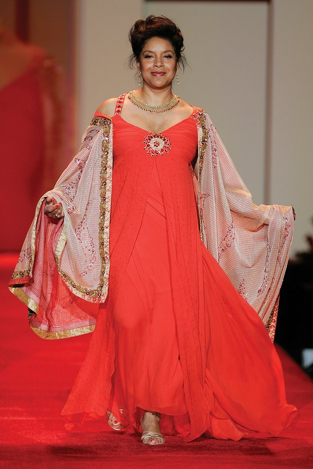 Actress Phylicia Rashad in the 2007 Red Dress Collection for The Heart Truth Foundation